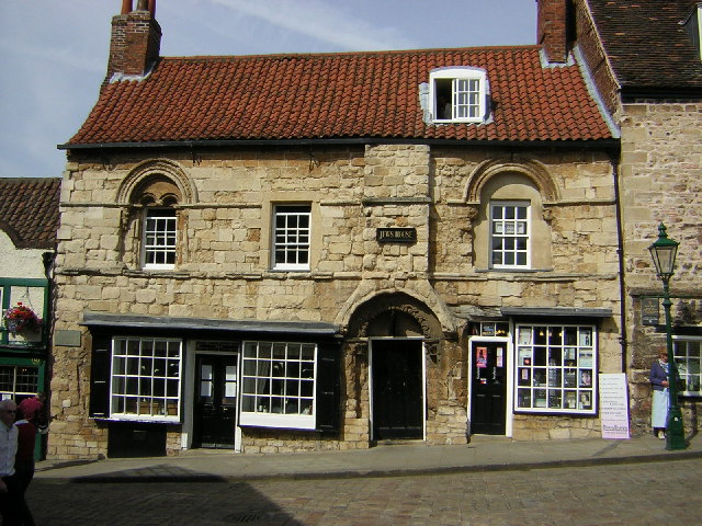 Jew's House, Lincoln. One of the two oldest houses in Lincoln, and one of only a handful of Norman houses in the UK, the Jew's House dates from the late 12th century - now home to a very nice restaurant.